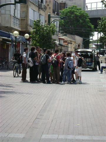 Tel Aviv-Yafo, Israël, Neve Sha'anan street